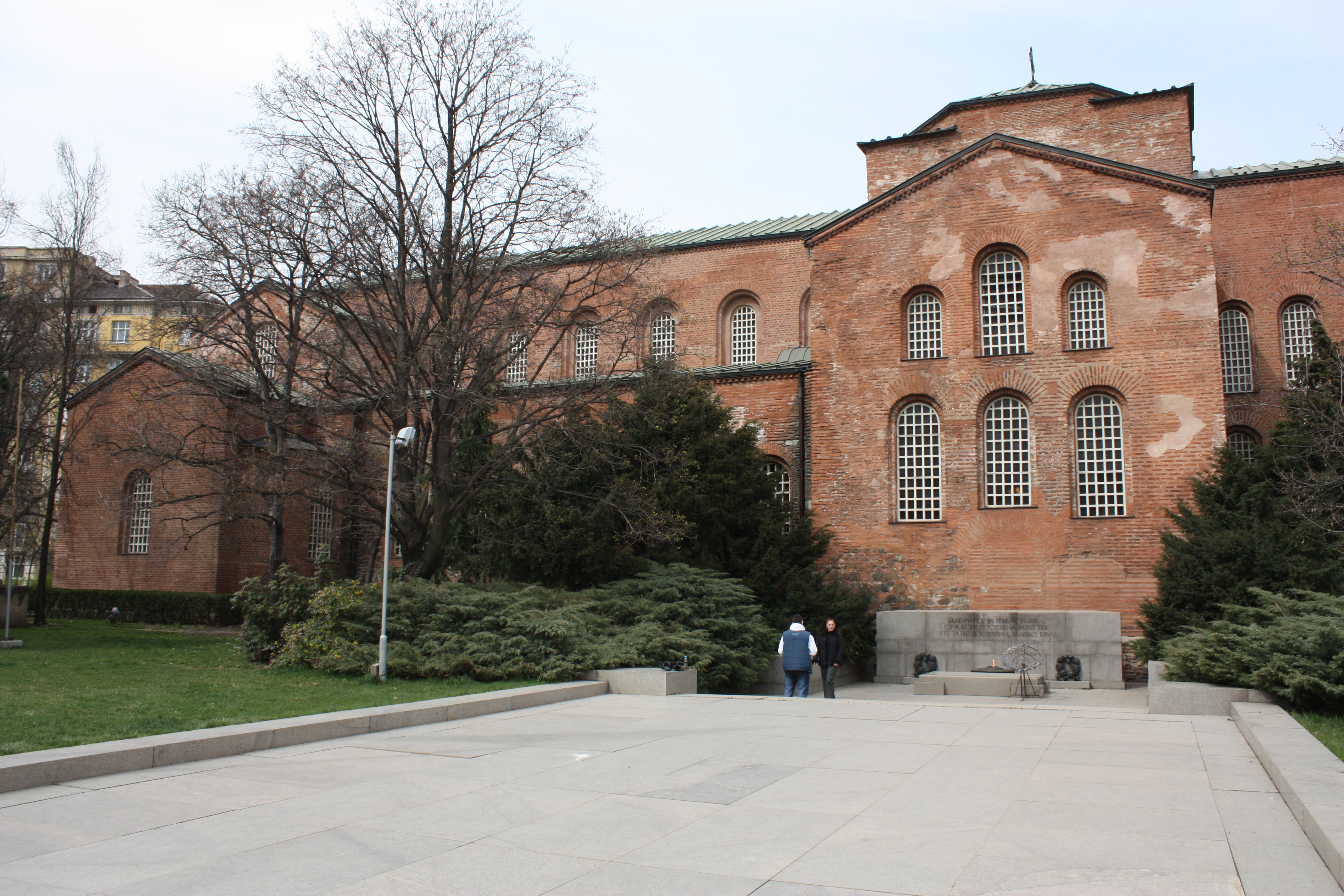 Sveta Sofia Church in Sofia, Bulgaria